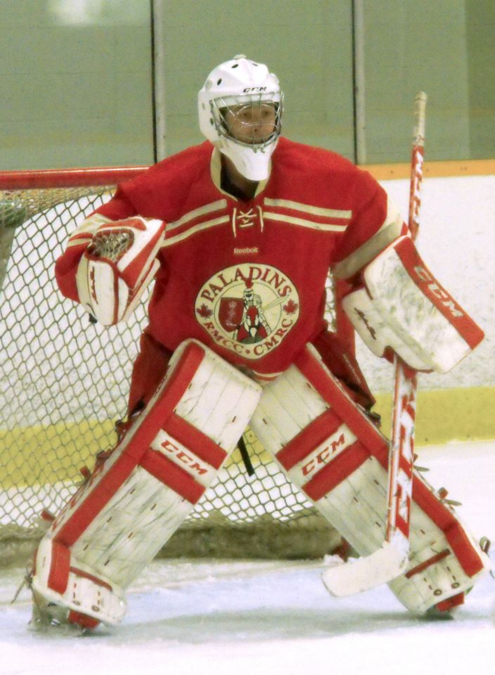 Photo taken by Devan Mighton of CIS men's hockey during 2014.15 season.